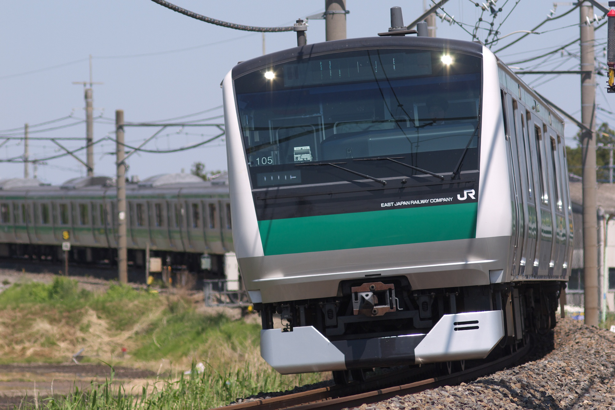 JR East E233-7000 series EMU set 105 on the Kawagoe Line in Saitama Prefecture, Japan